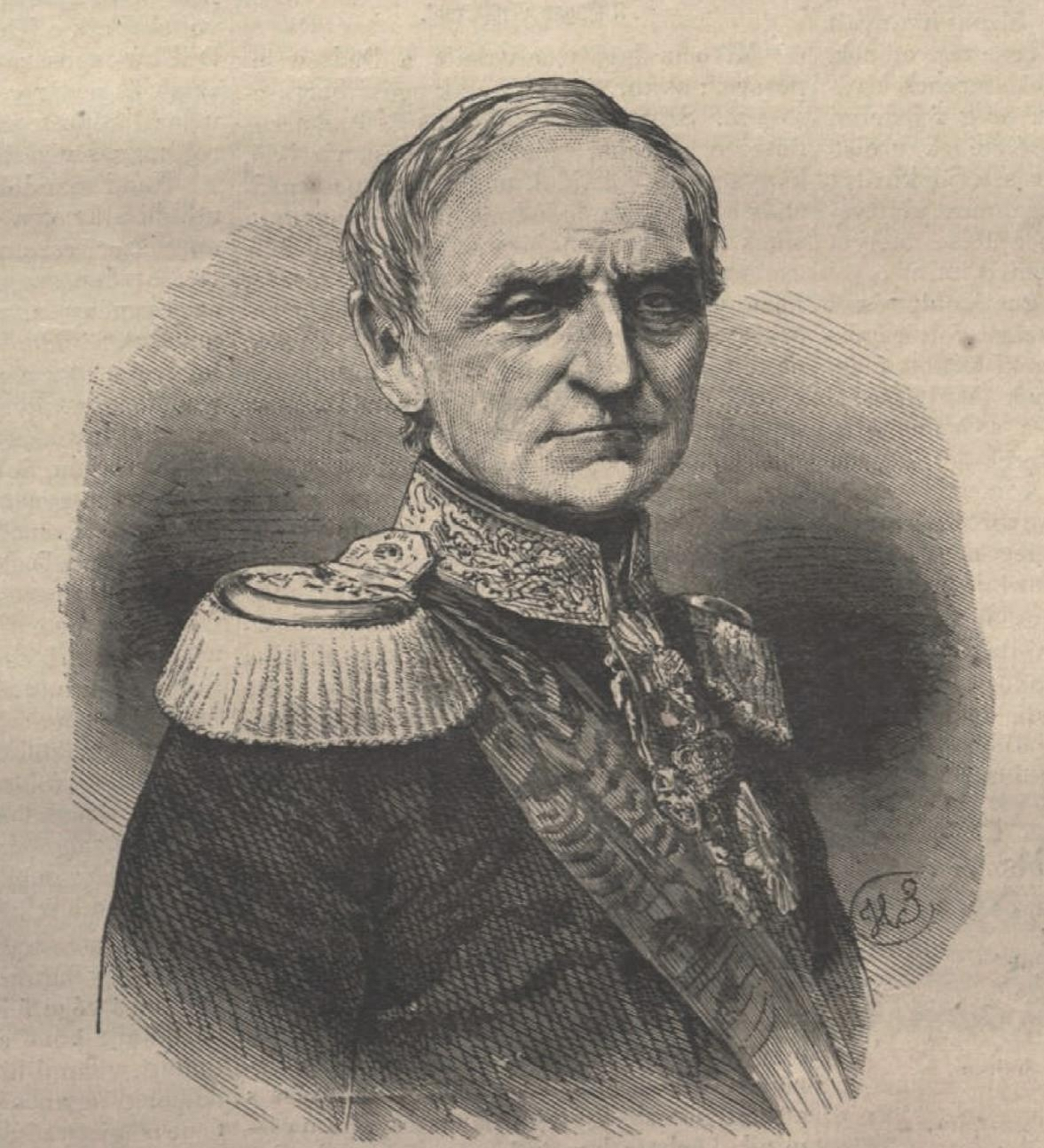 John of Saxony